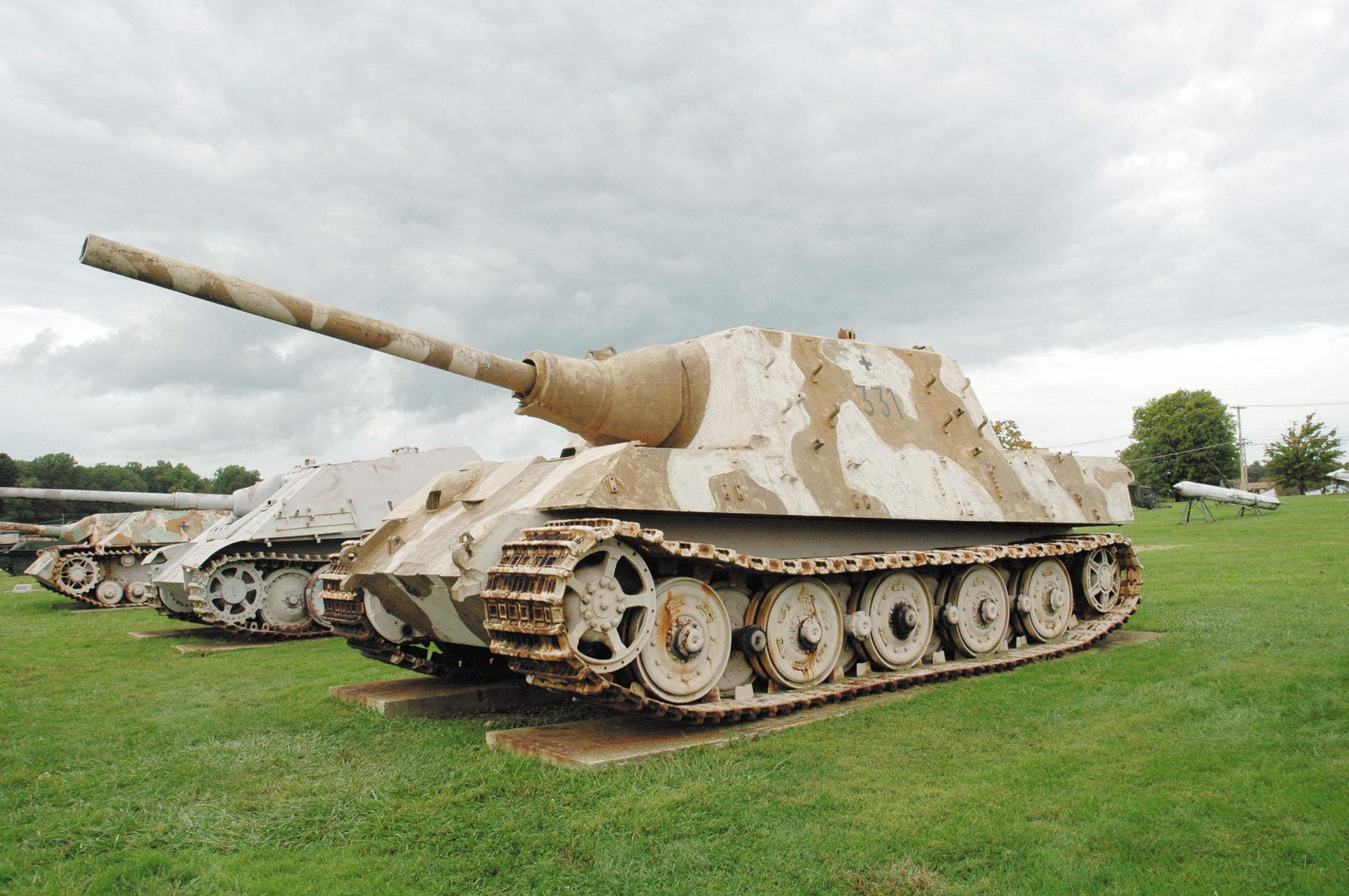 The Jagdtiger (Tiger) Tank is a German tank destroyer (self-propelled antitank gun), the heaviest armored fighting vehicle to see service during World War II. The Tiger saw service from late 1944 to the end of the war. The one at the U.S. Army Ordnance Museum at Aberdeen Proving Ground is one of only two left in the world.